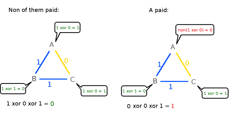 An illustration for better understanding to Dining Cryptographers Problem.